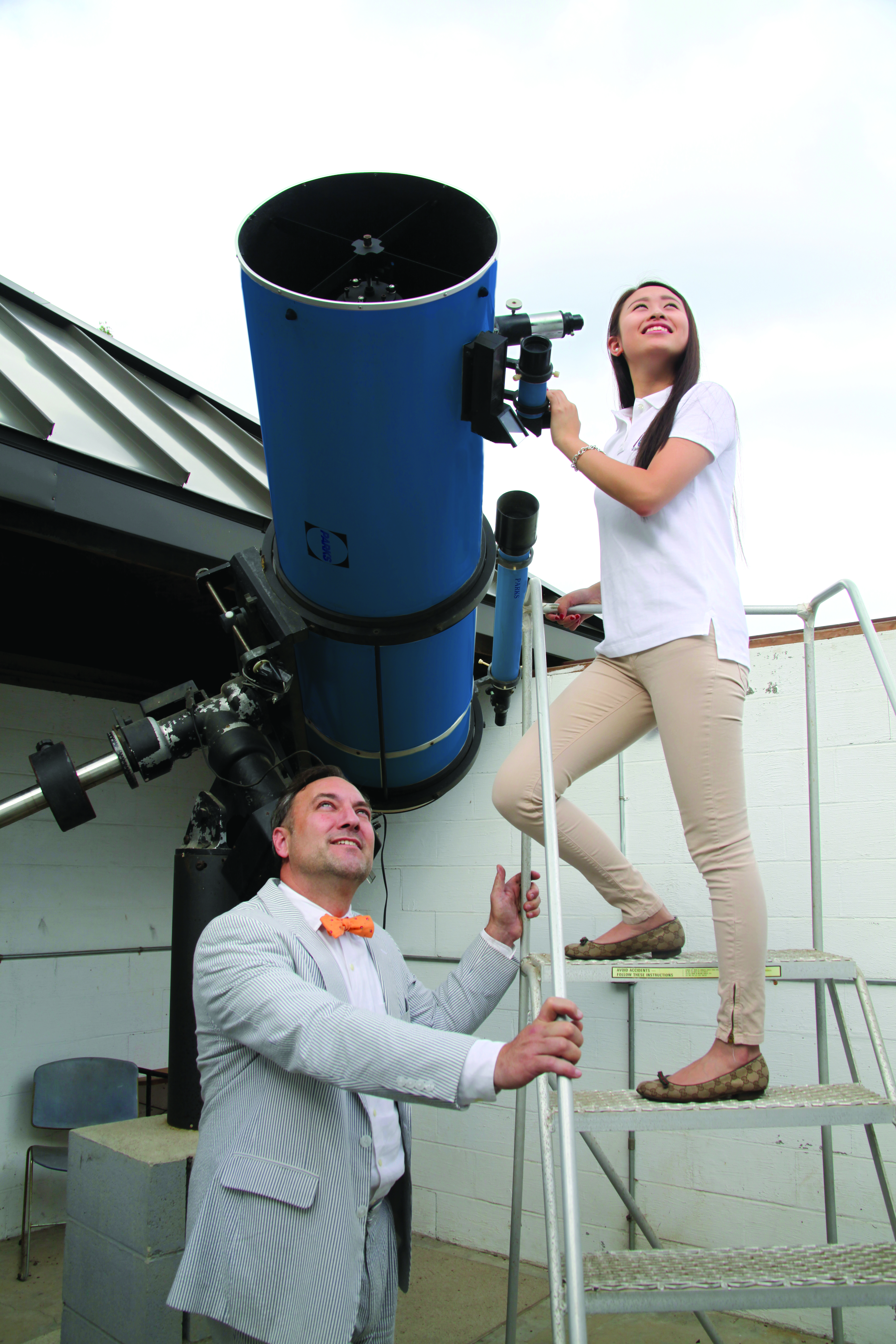 image of a telescope